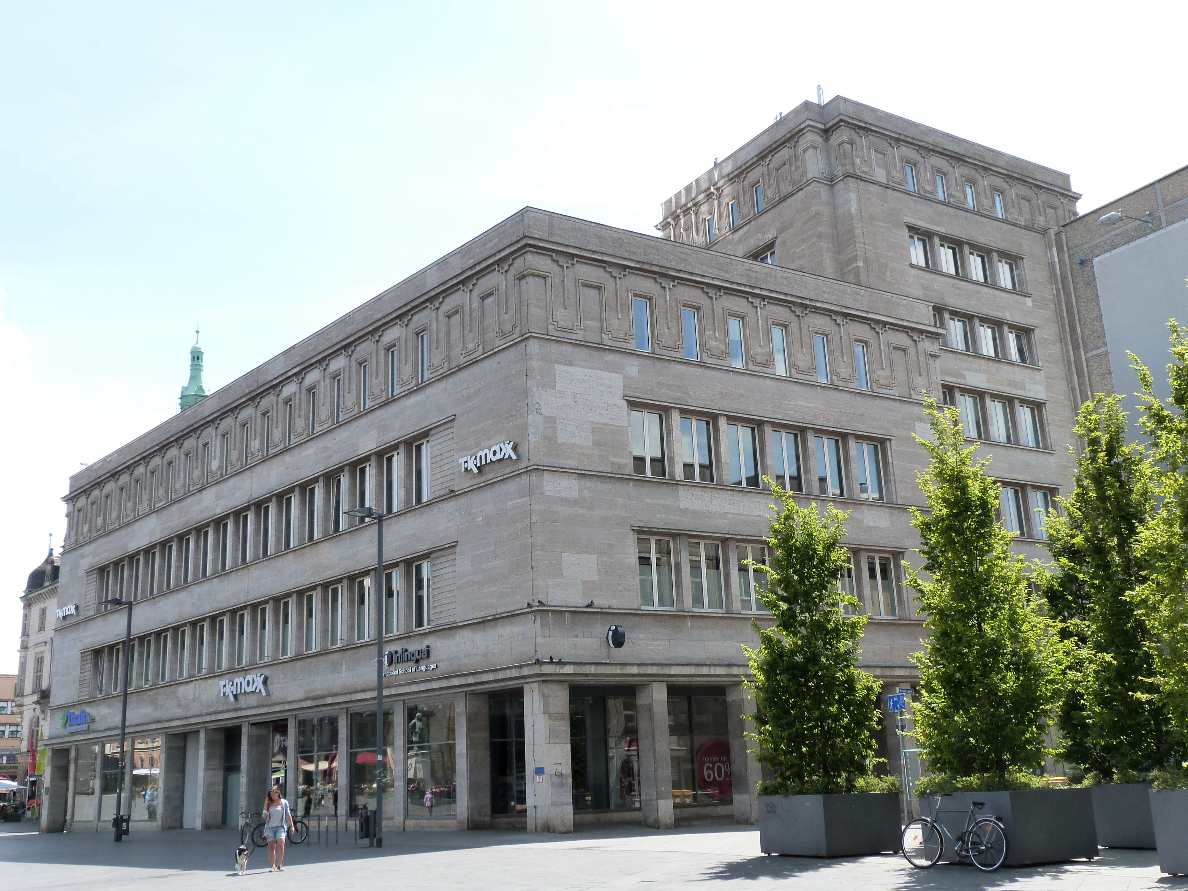 House No. 3, Marktplatz (market square) in Halle (Saale), former store Julius Lewin, built in 1929